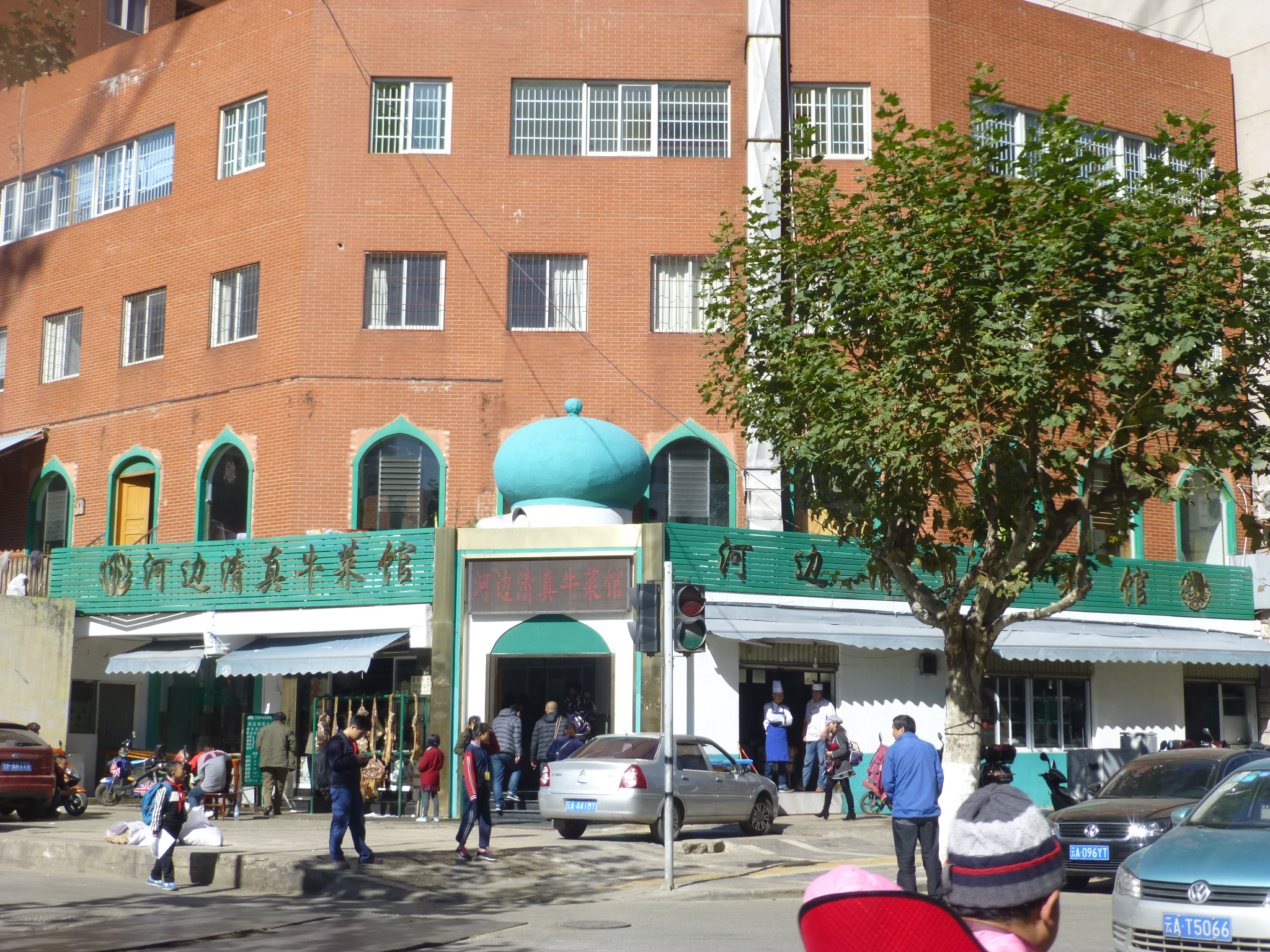 "Riverside Halal Beef Restaurant" in Kunming